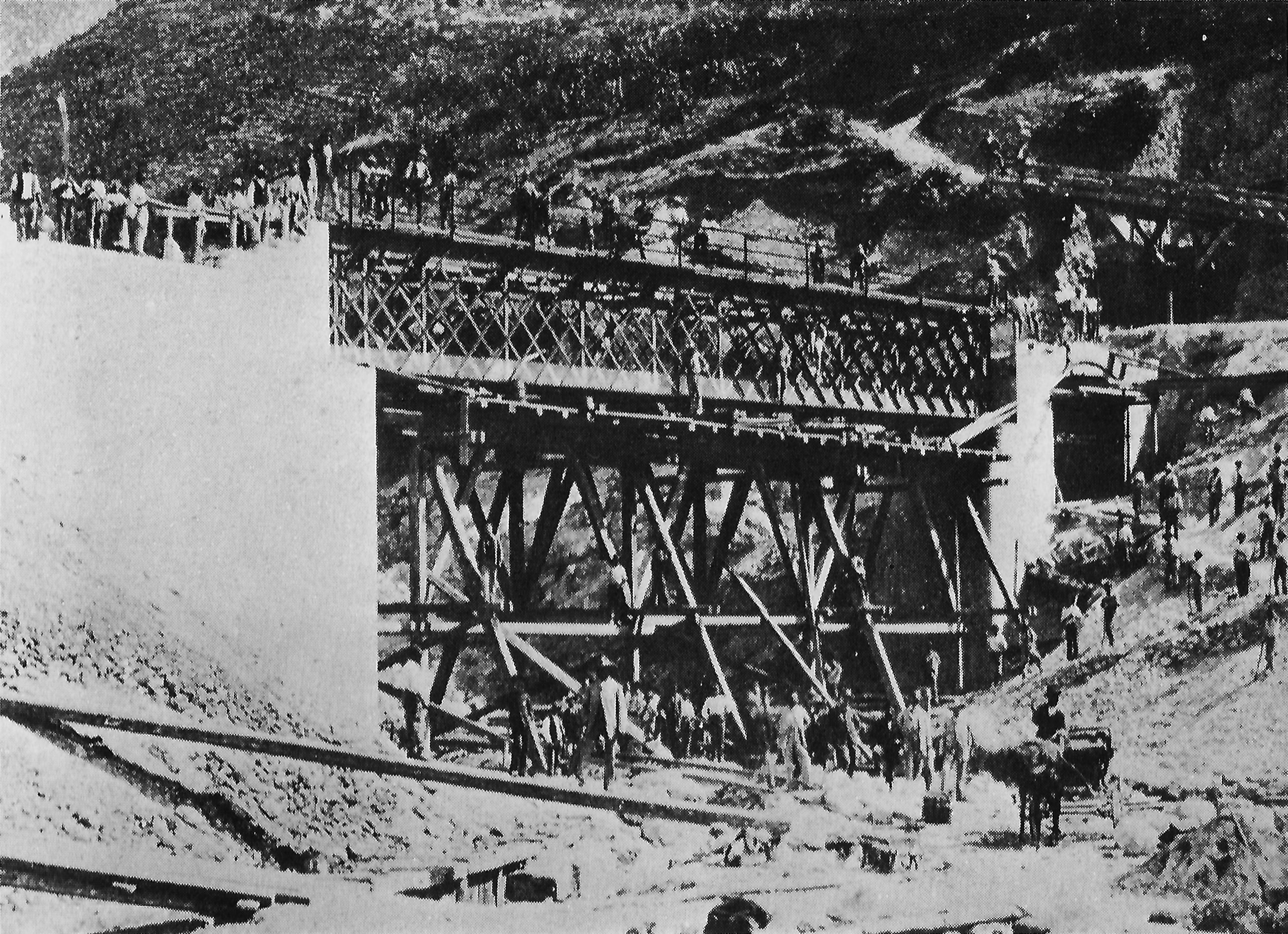 Construction works for the building of a bridge in the Terni-Rieti-L'Aquila railway